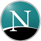 Logo of Netscape between 2000 and 2003 and Netscape 7